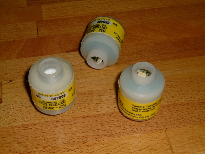 3 electrogalvanic fuel cells